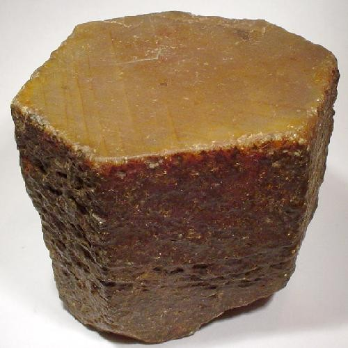 Corundum Locality: United Jack Mine, Zoutpansberg District, Murchison Range, Limpopo Province, South Africa (Locality at ) A LARGE, sharp, hexagonal, doubly terminated, rust-brown corundum crystal from a classic South Africa locality, Zoutpansberg. Classic material with three, fine old labels. Ex Richard Hauck Collection. 5.2 x 4.5 x 4.1 cm